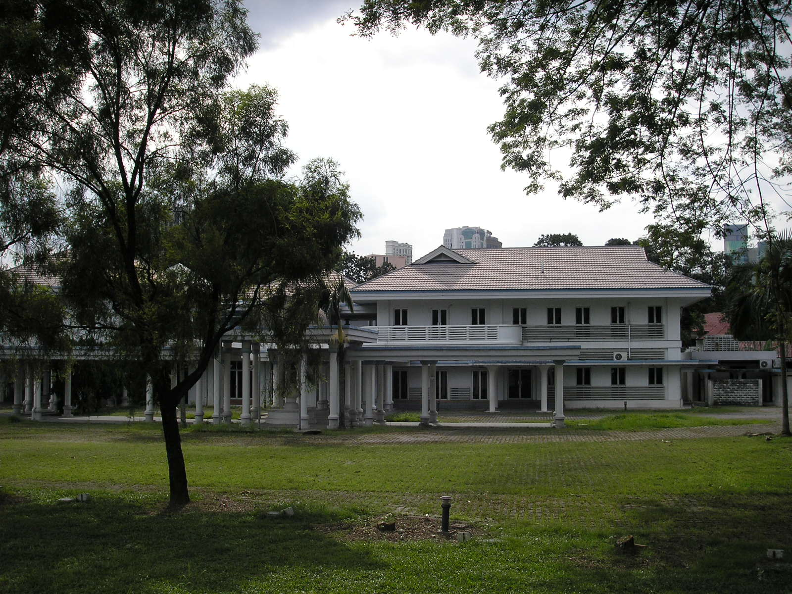 The old Istana Perlis in Kuala Lumpur, former city residence of the Raja of Perlis in Kuala Lumpur.